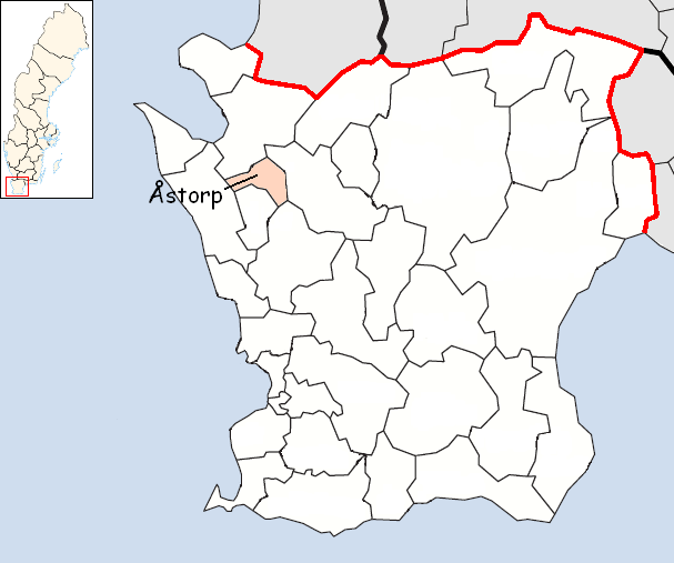 Åstorp Municipality in Scania, Sweden Designed by me. Mere outlines are a PD source from